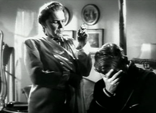 Alfred Hitchcock's 1946 Film 'Notorious' Movie Trailer. Leopoldine Konstantin and Claude Rains (as her son)